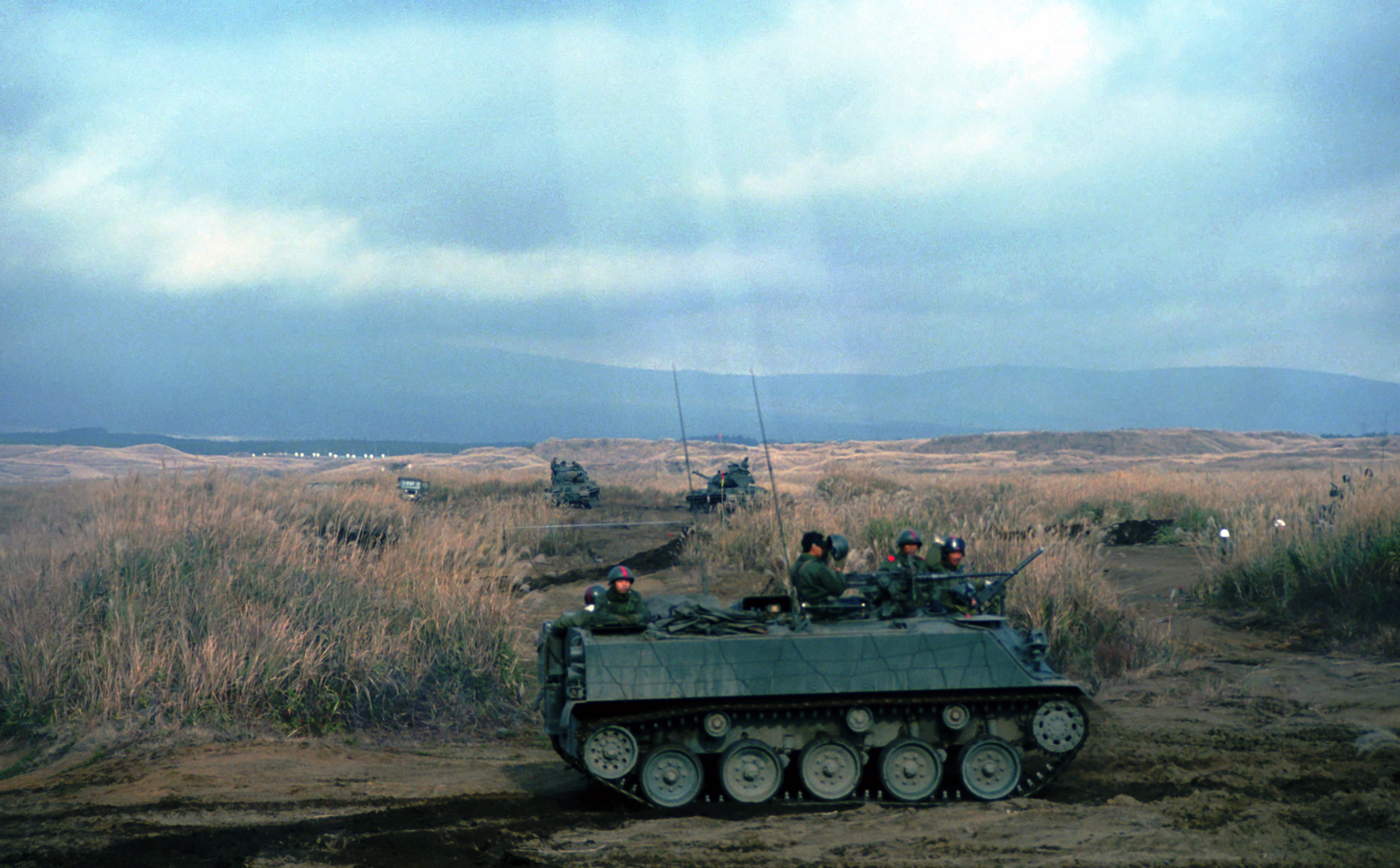 A Japanese Self Defense Force SU-60 armored personnel carrier moves down a dirt road during the joint US/Japanese Exercise ORIENT SHIELD '85.